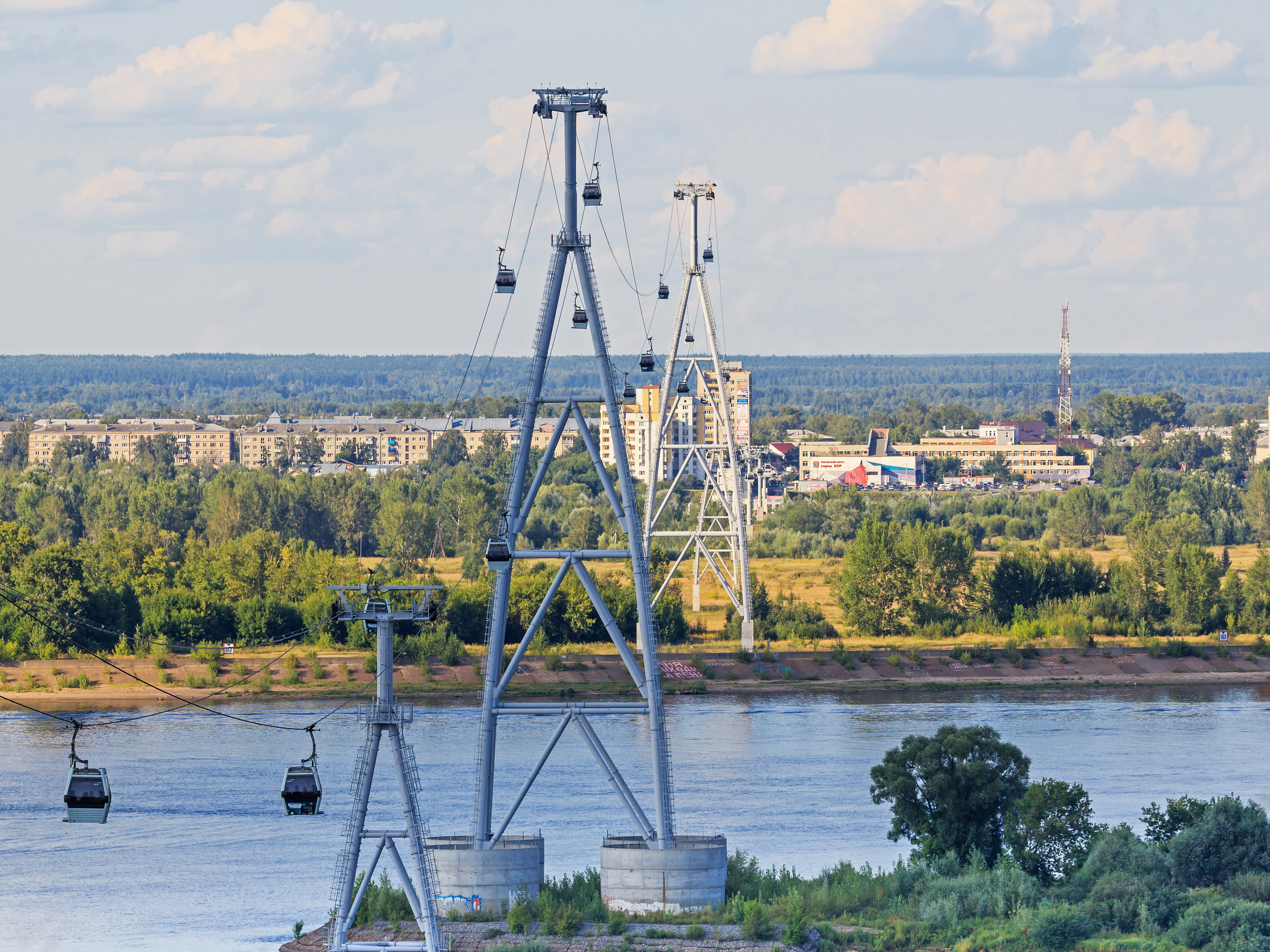 Nizhny Novgorod–Bor Volga cableway. View from nearby the upper station. Nizhny Novgorod, Russia.